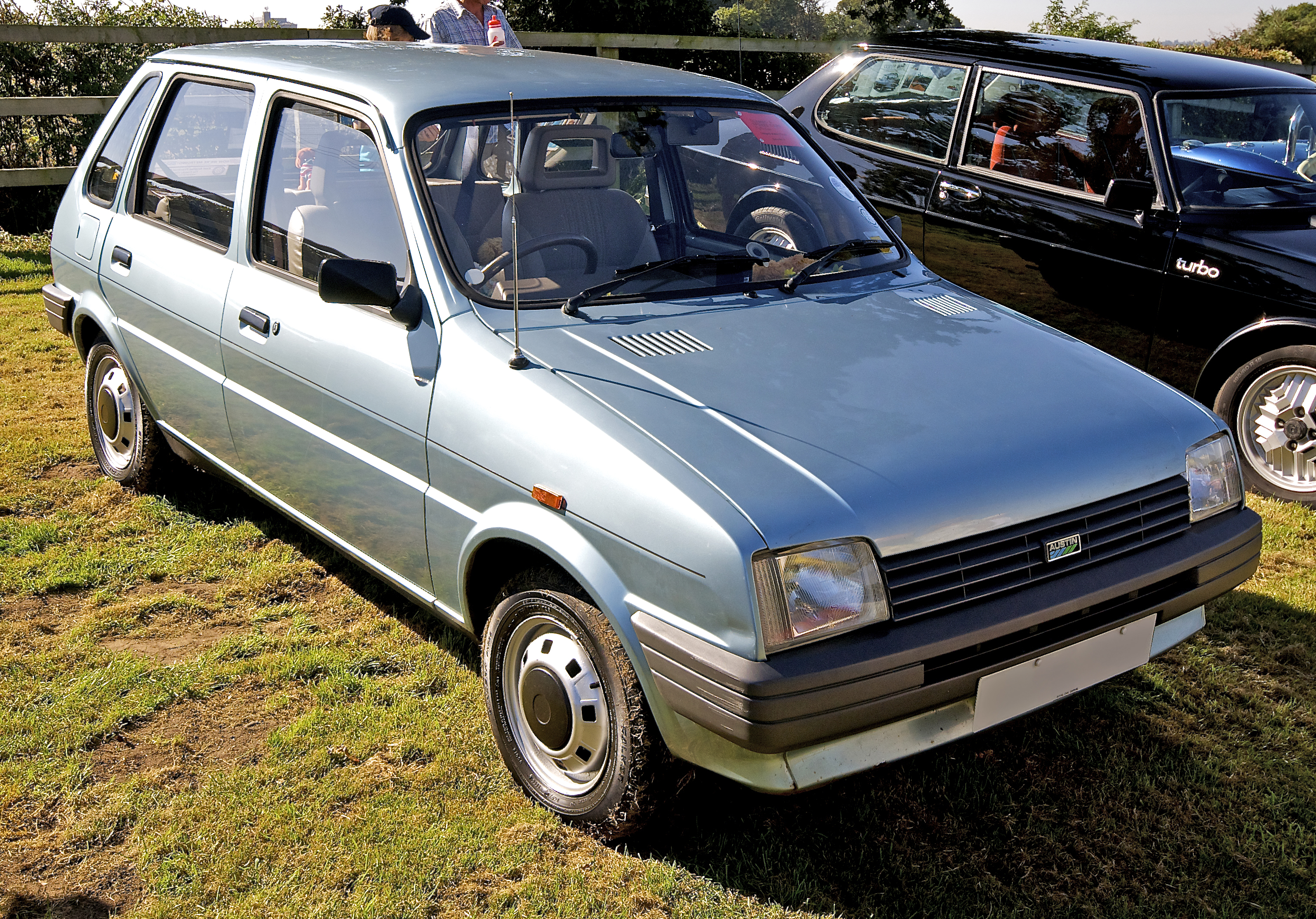 1985 Austin Metro five-door (1275cc) at the Classic Cars By The Lake show, UK 2012.